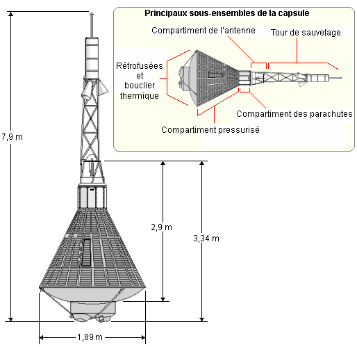 Diagram of the Mercury Spacecraft. French version